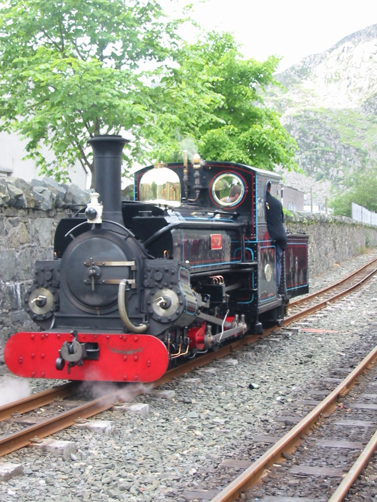 Ffestinog Railway 0-4-0 saddle-tank steam locomotive Linda at Blaenau Ffestiniog railway station